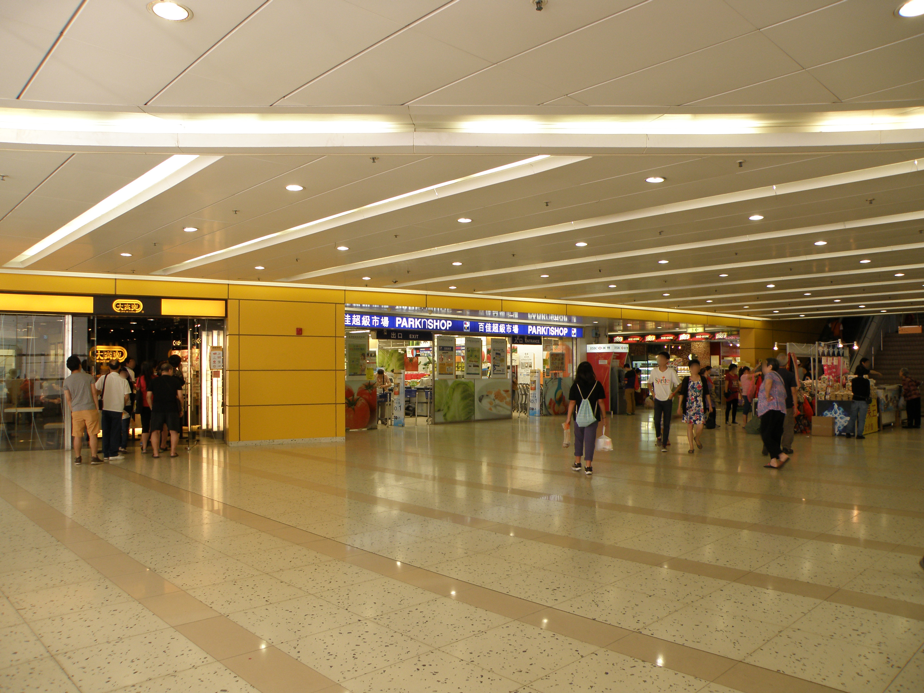 Shek Pai Wan Estate Shopping Centre in Aberdeen, Hong Kong.